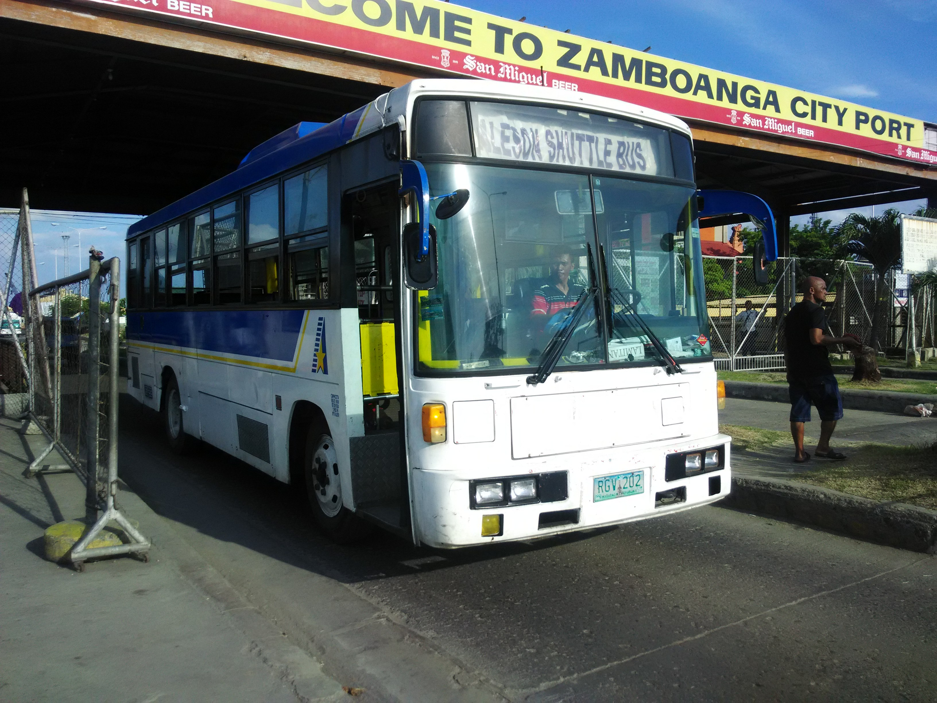 Aleson Shuttle Service at the Zamboanga International Seaport, Pinoy Bus Fanatic